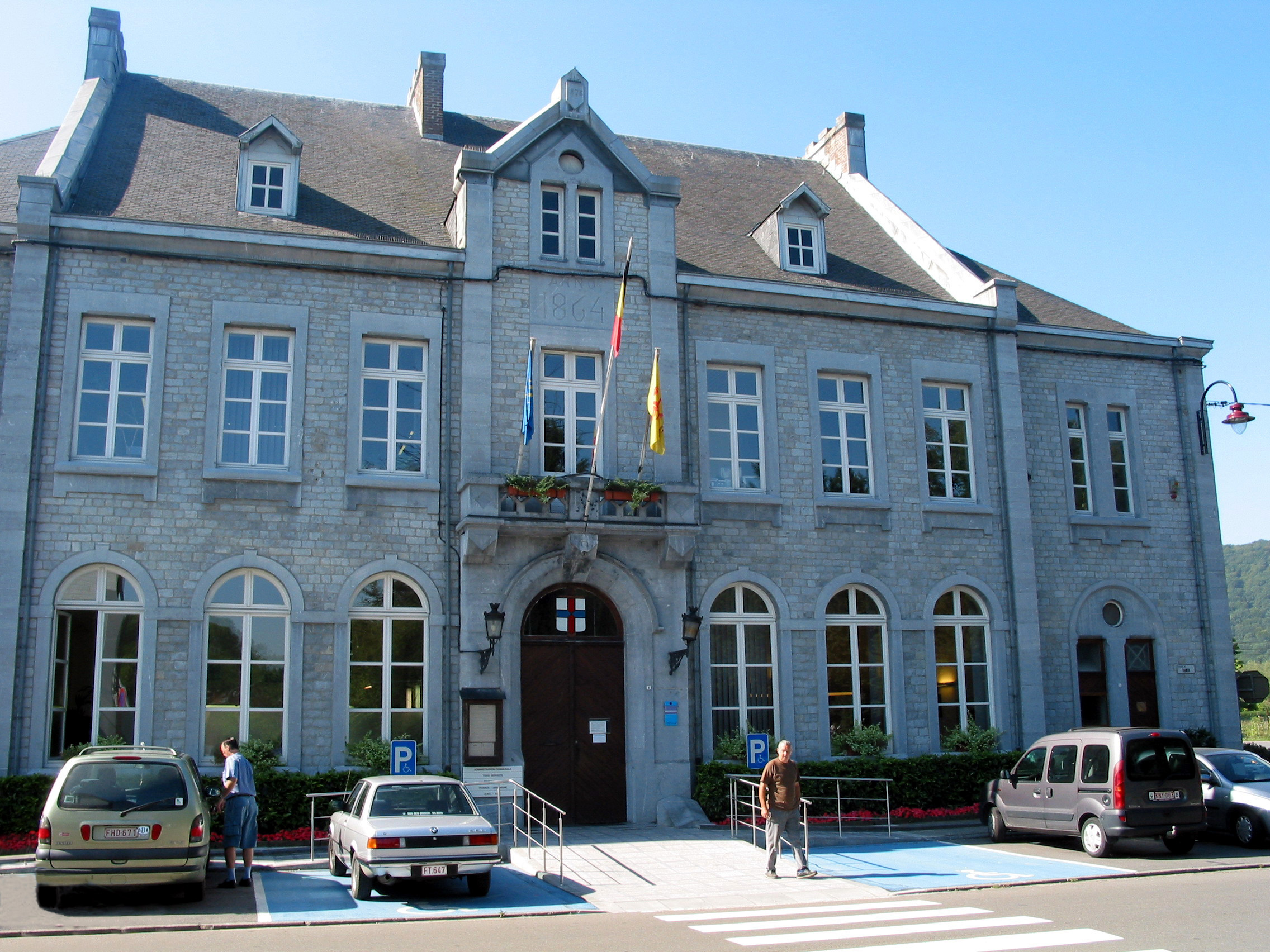 Profondeville (Belgium), the town hall (1864).